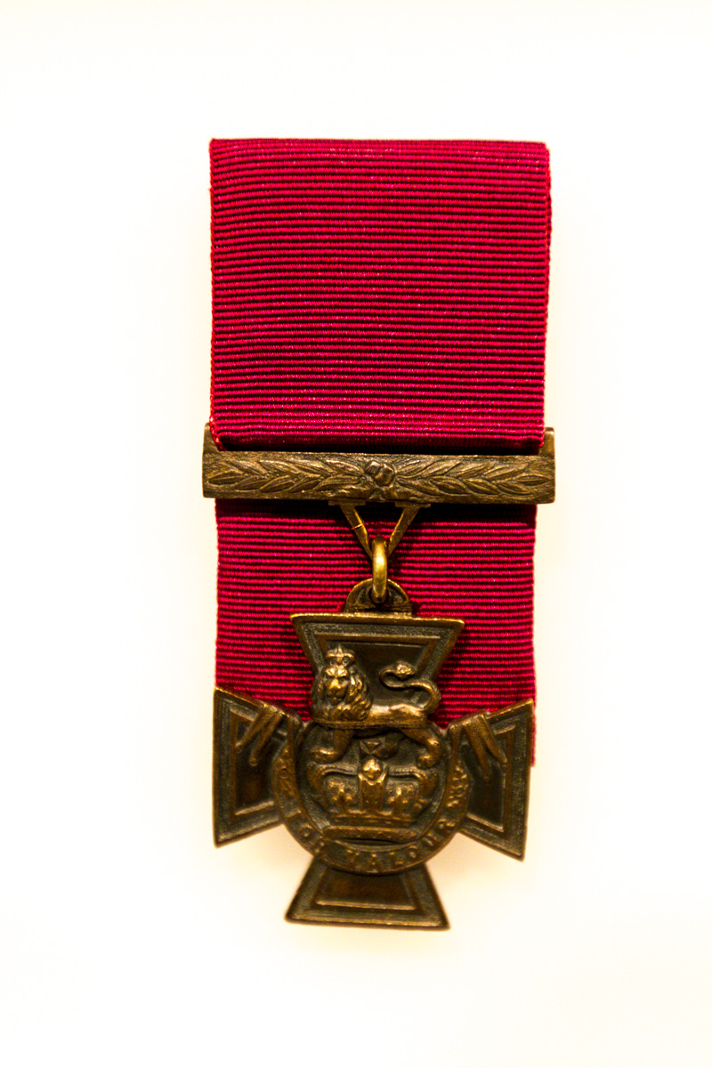 Victoria Cross medal of Humphrey James aka Frederick Whirlpool VC. This medal was the first Victoria Cross to be awarded in Australia - June 1861. It is now at the Australian War Memorial.